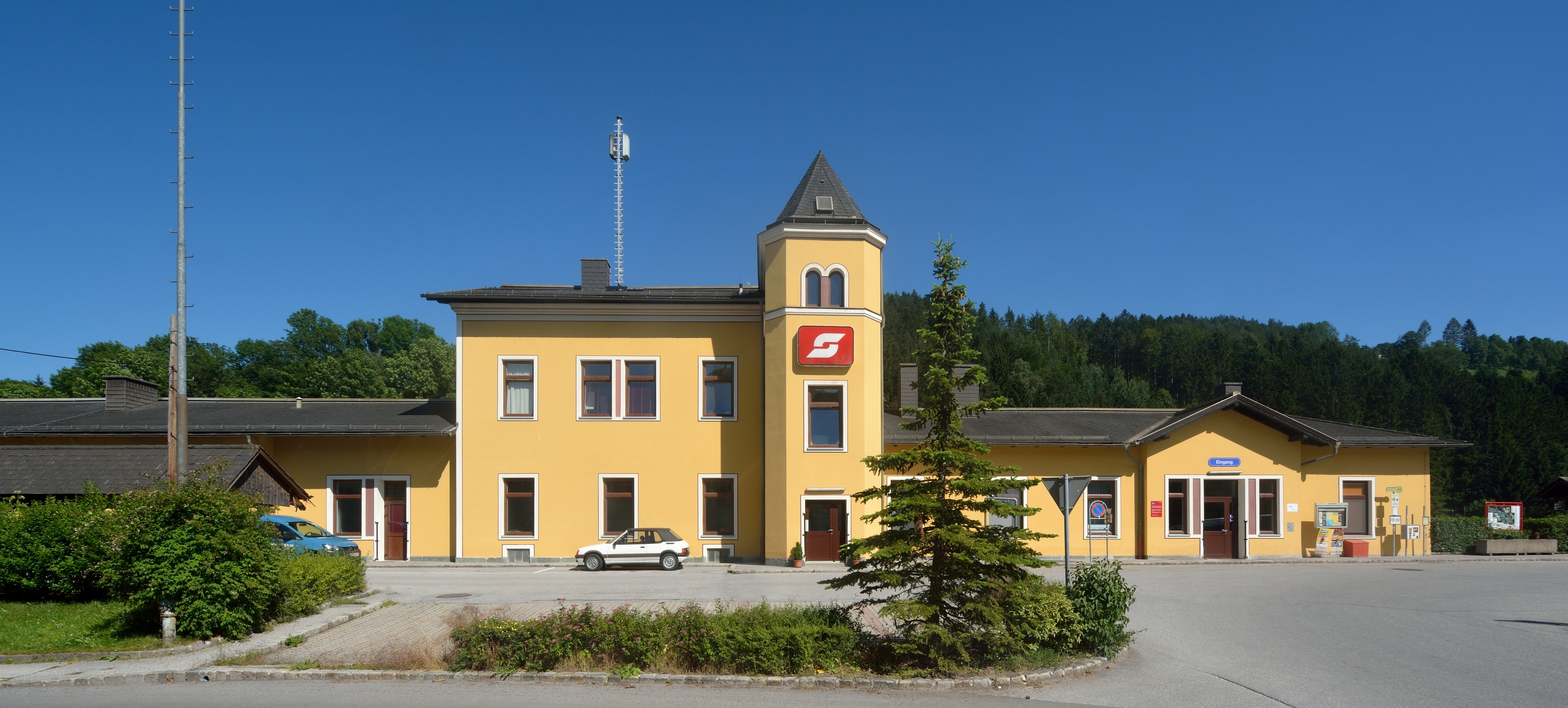 Railway station Aspang, former end of the line Aspangbahn, Lower Austria